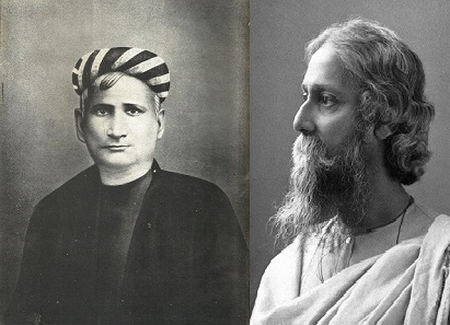 Merger of Bankim Chandra Chatterjee and Rabindranath Tagore portraits